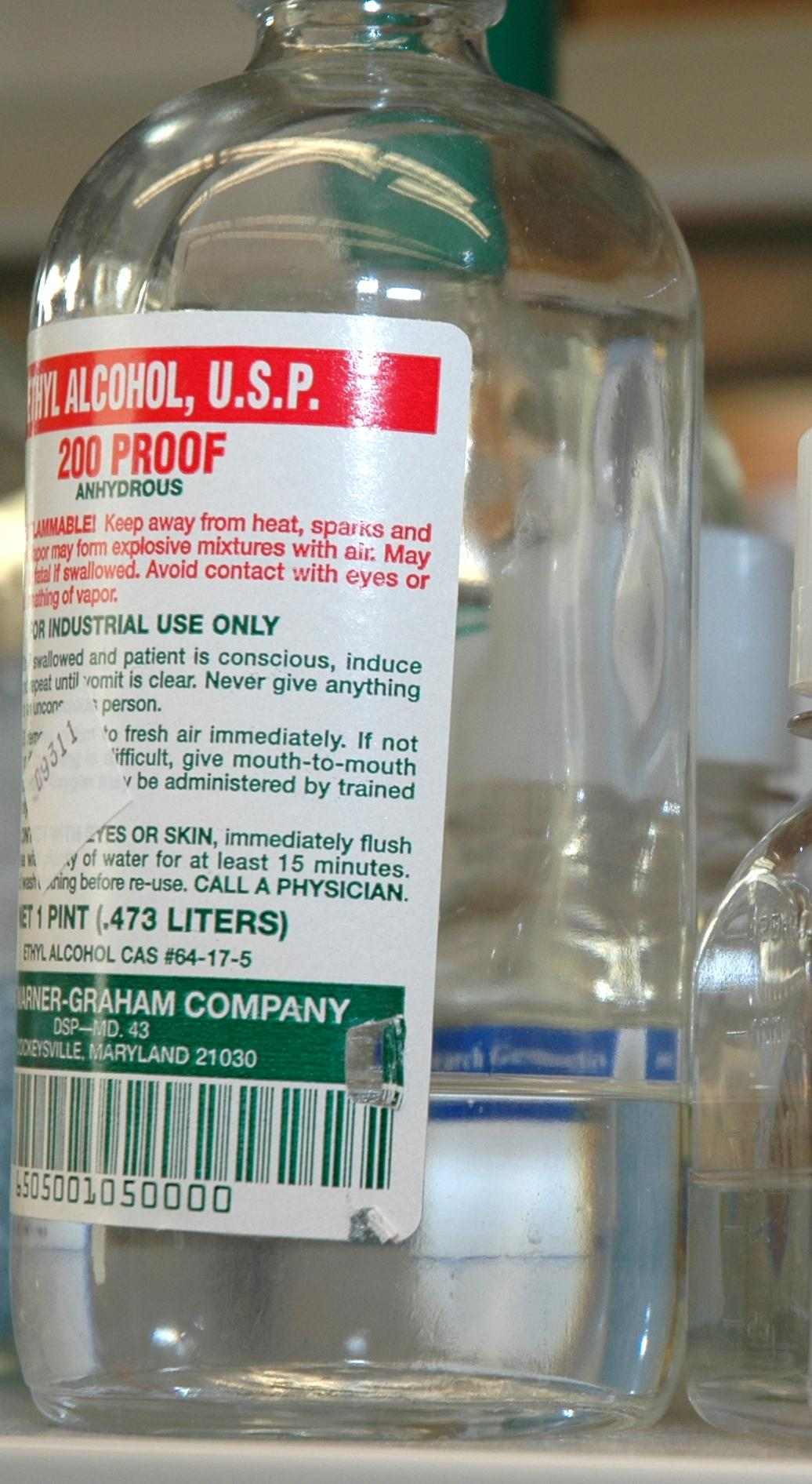 Title: Technology: Lab Description: Bottles in a lab. Subjects (names): Topics/Categories: Technology -- Lab Type: Digital Color Source: National Cancer Institute Author: Diane A. Reid, Photographer Date Created: January 27, 2005 Date Added: 6/1/2005 Reuse Restrictions: None - This image is in the public domain and can be freely reused. Please credit the source and/or author listed above.